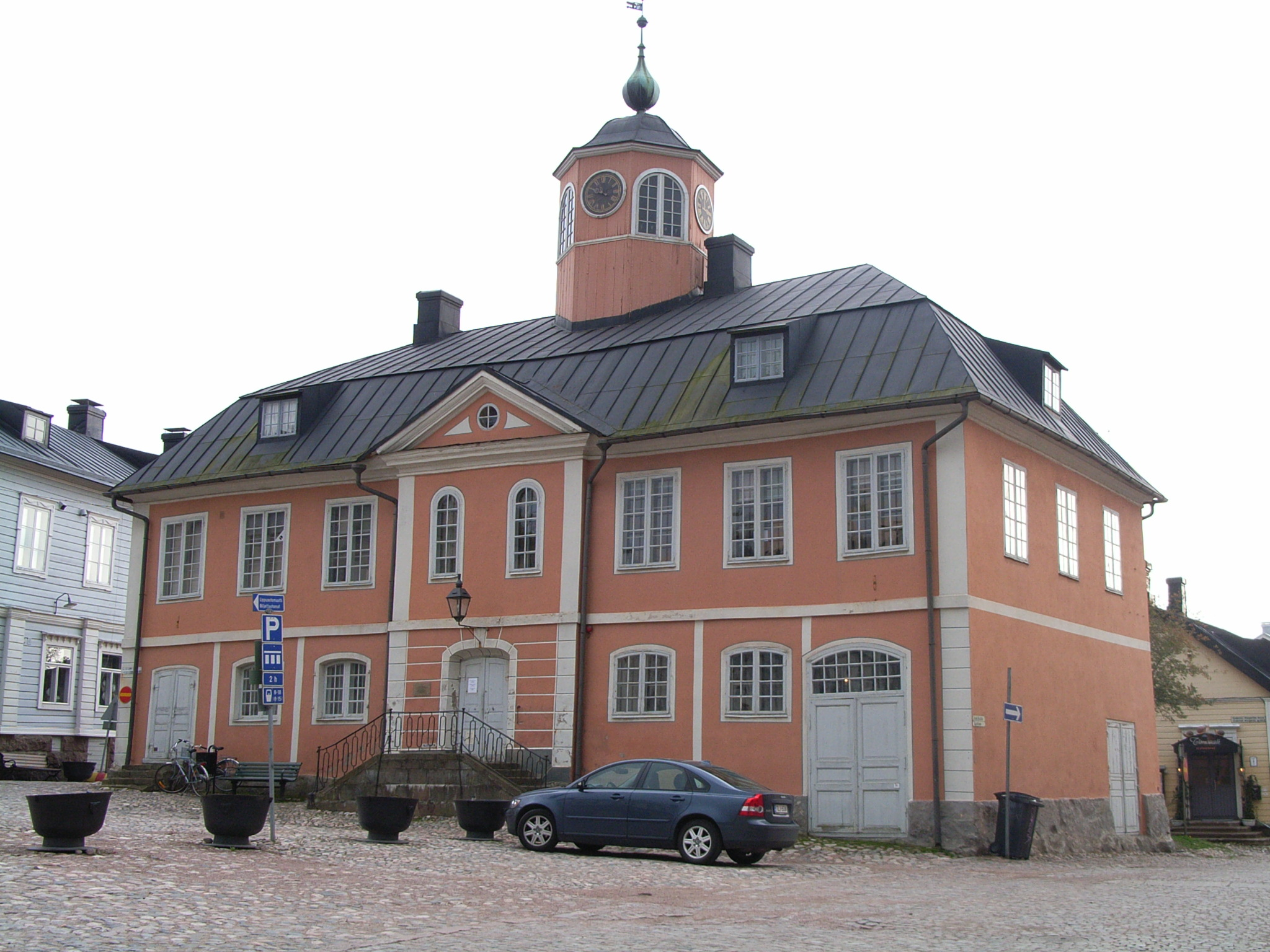 Porvoo, old town hall